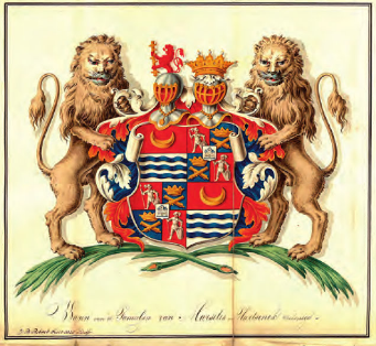 Familycrests of Hartsinck and Van Marselis combined after formation of Van Marselis Hartsinck in 1820.